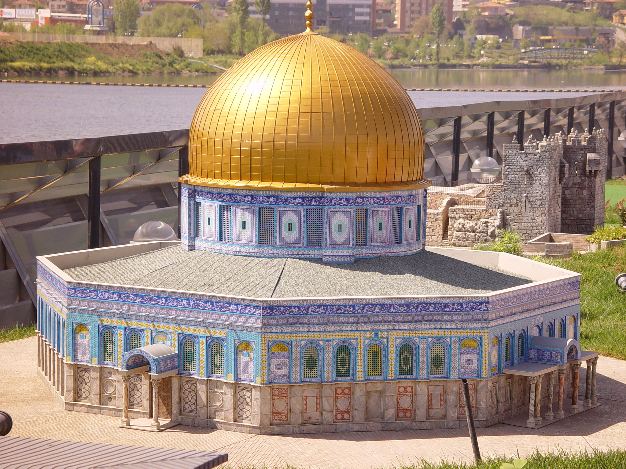 Photographs from Miniatürk